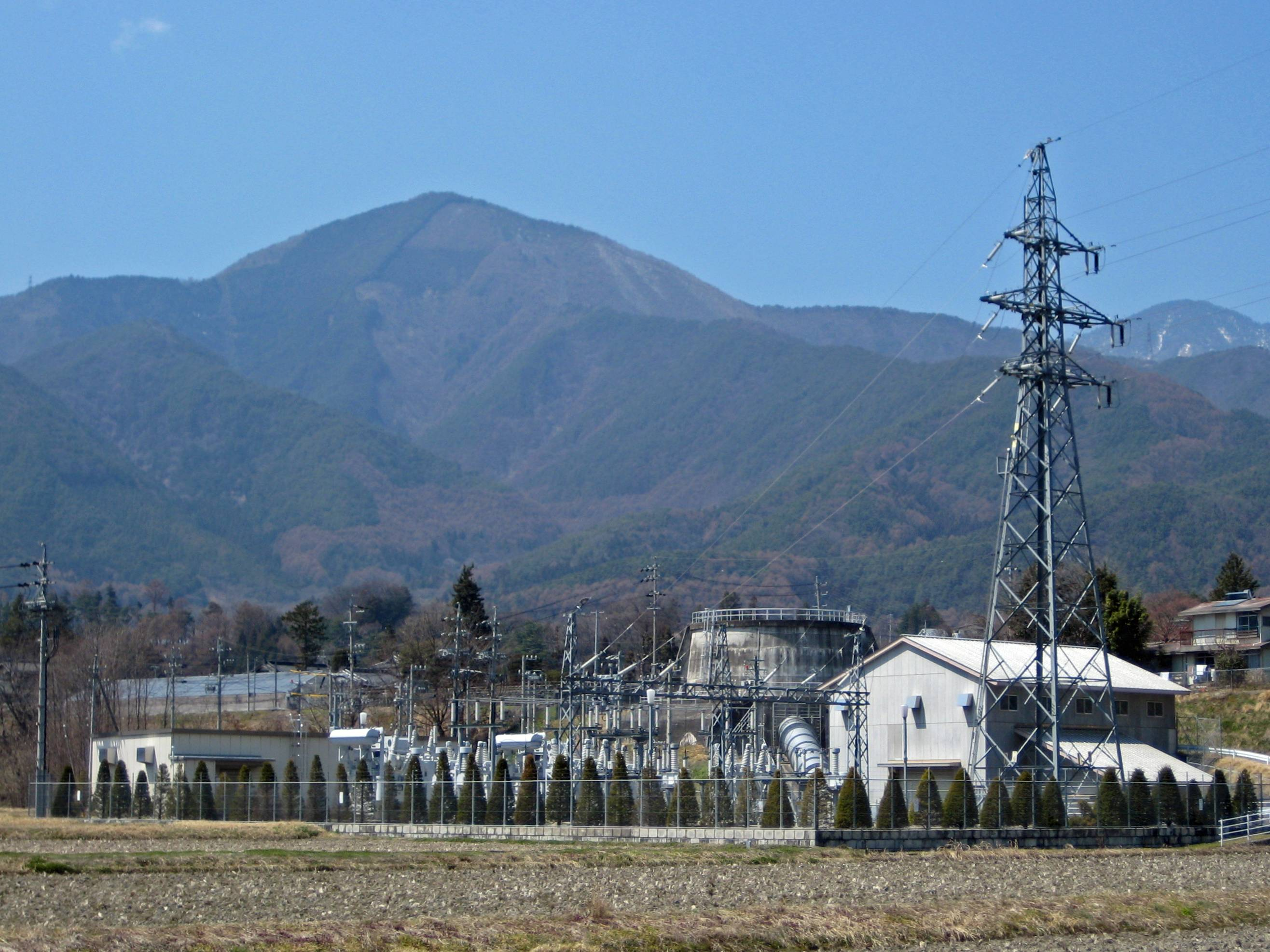 Azusa power station. Mount Kinshoji in the background.